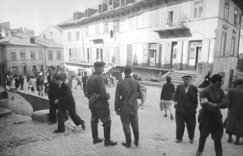 Photo taken in Lublin (identification based on distinctive building in related photo).